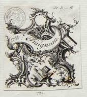 Willaim Fraigneau, bookplate, 1784.